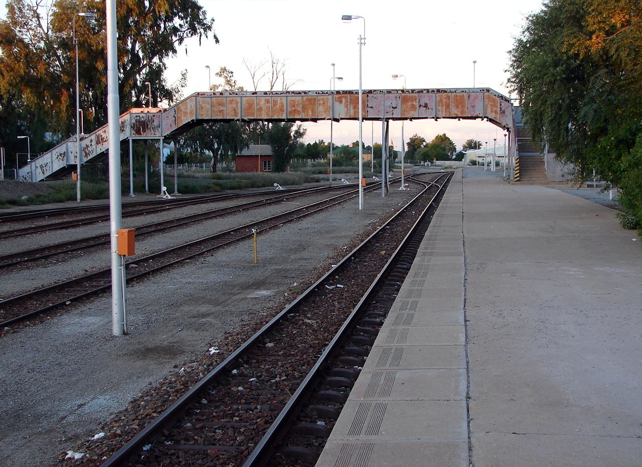 Upington station, Northern Cape, looking east